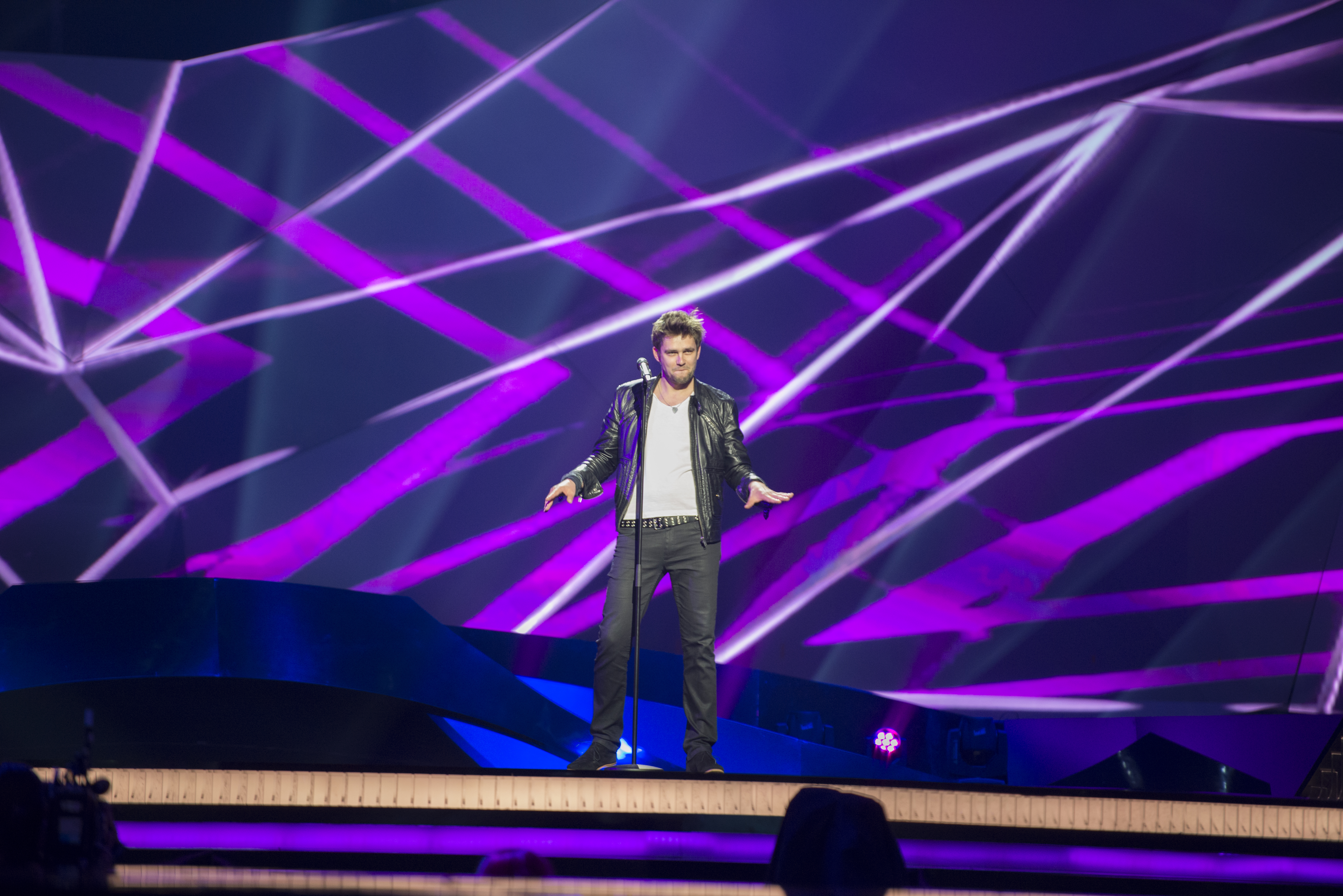 Andrius Pojavis representing Lithuania with the song "Something" during the first dress rehearsal of the first semi final of the Eurovision Song Contest 2013 in Malmö. (Help translate this text)